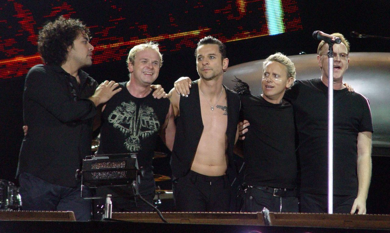 DM says goodbye. Hyde Park